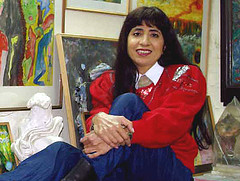 Information Image of renowned Indian Poet Artist Rooma Mehra to complement Wikipedia article